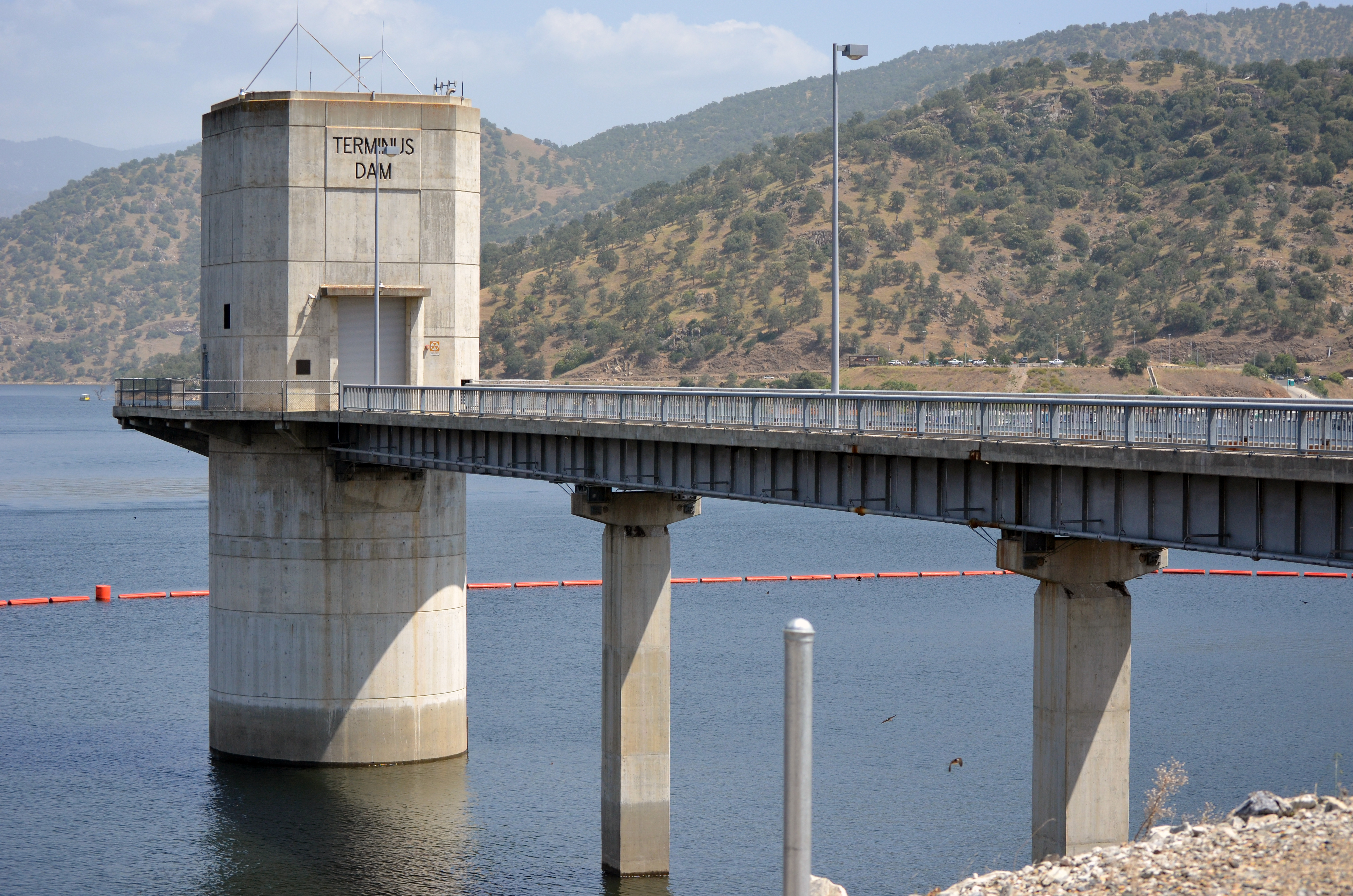 The control tower at Terminus Dam, completed in 1962. The U.S. Army Corps of Engineers Sacramento District celebrated the 50th anniversary of Lake Kaweah and Terminus Dam near Visalia, Calif., May 18, 2012. Since 1962, the dam has provided reduced risk of flooding and millions of dollars in agricultural, recreation and natural resources benefits. (U.S. Army photo by John Prettyman/Released)